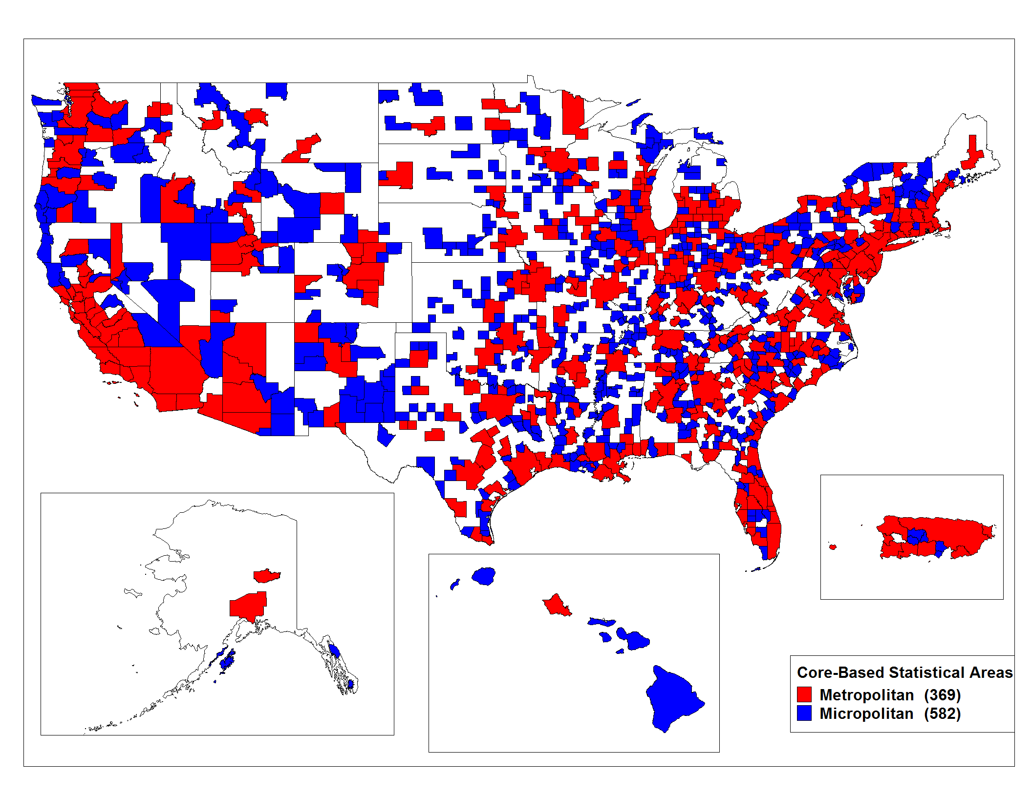 Map of the Core-Based Statistical Areas of the United States, based on 2005 US Census data. Created by Rarelibra 19:40, 25 October 2006 (UTC) for public domain use, using MapInfo v8.5 and various mapping resources.